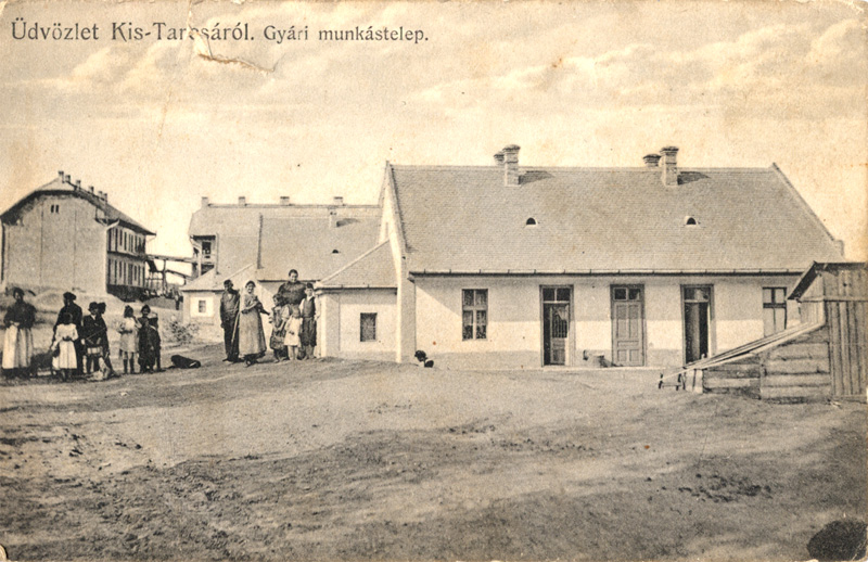 Workers corner - Kistarcsa - 1921